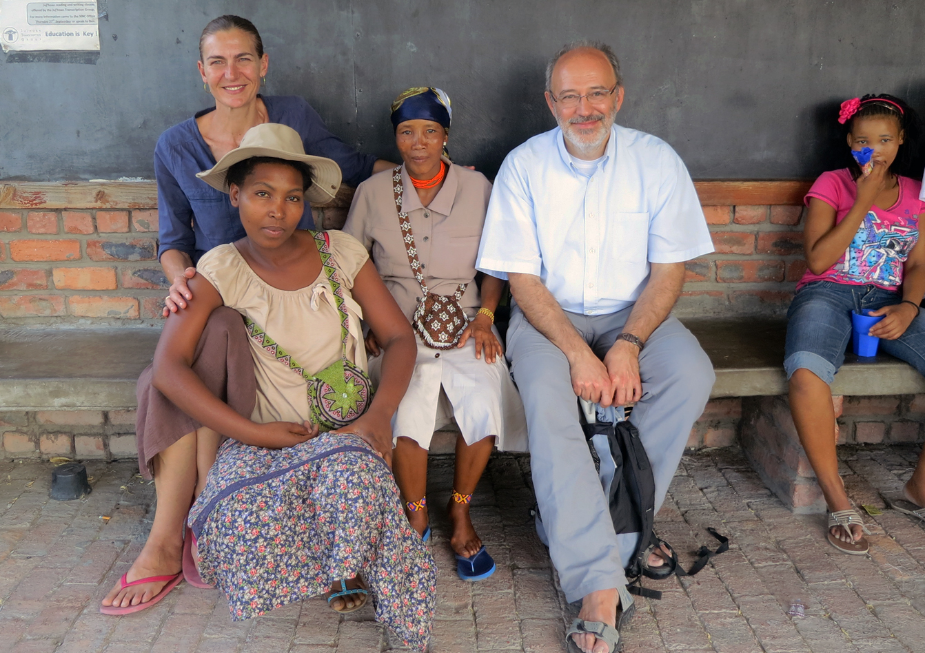 Ethnoarchaeology